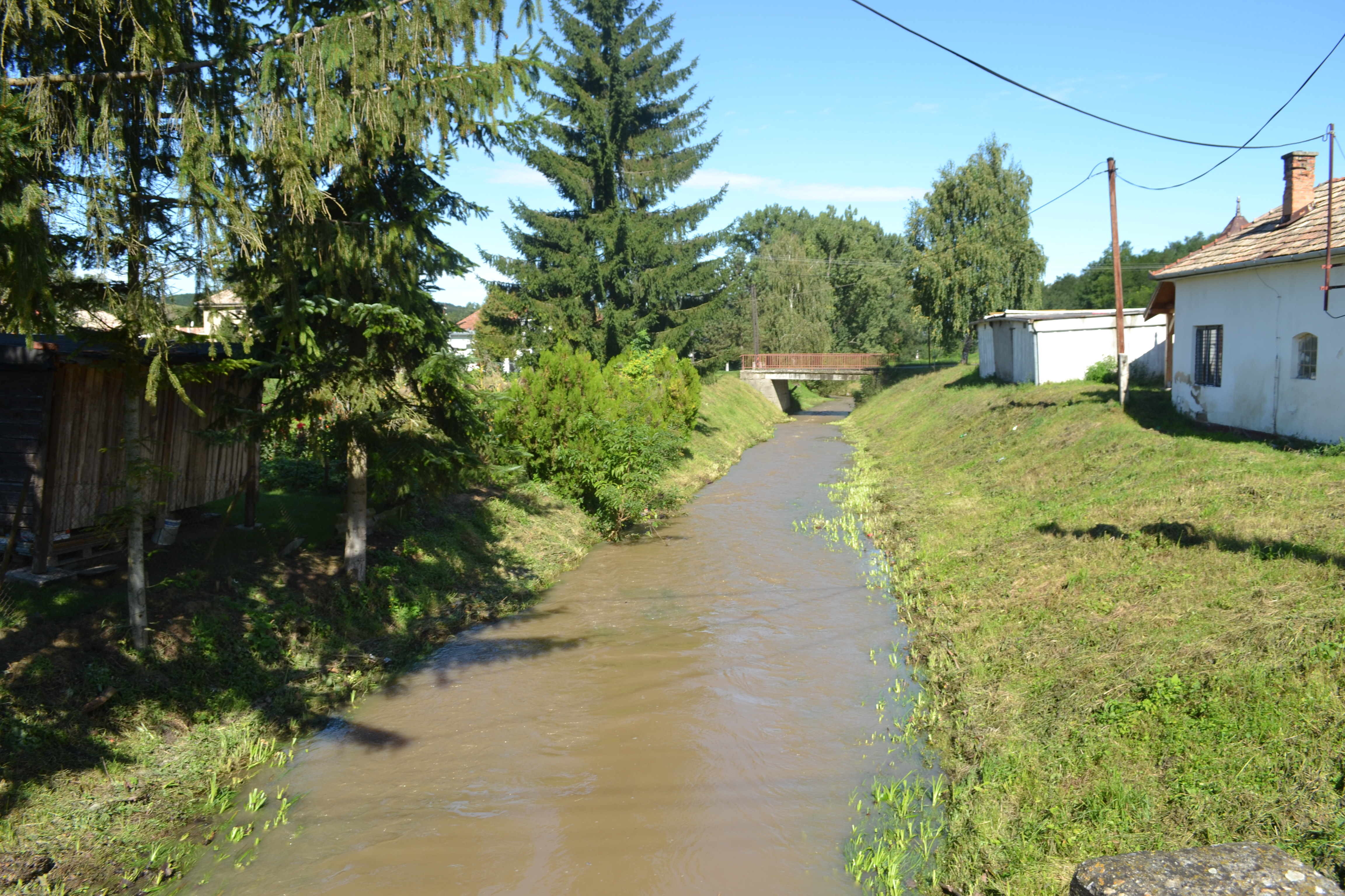 Mučín creek flowing through the municipality Mučín